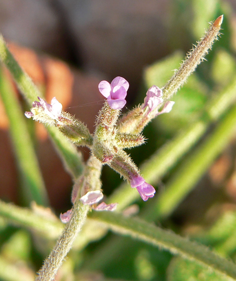 Malcolmia africana in Gypsum Wash where Northshore Drive crosses it, Lake Mead National Recreation Area, southern Nevada